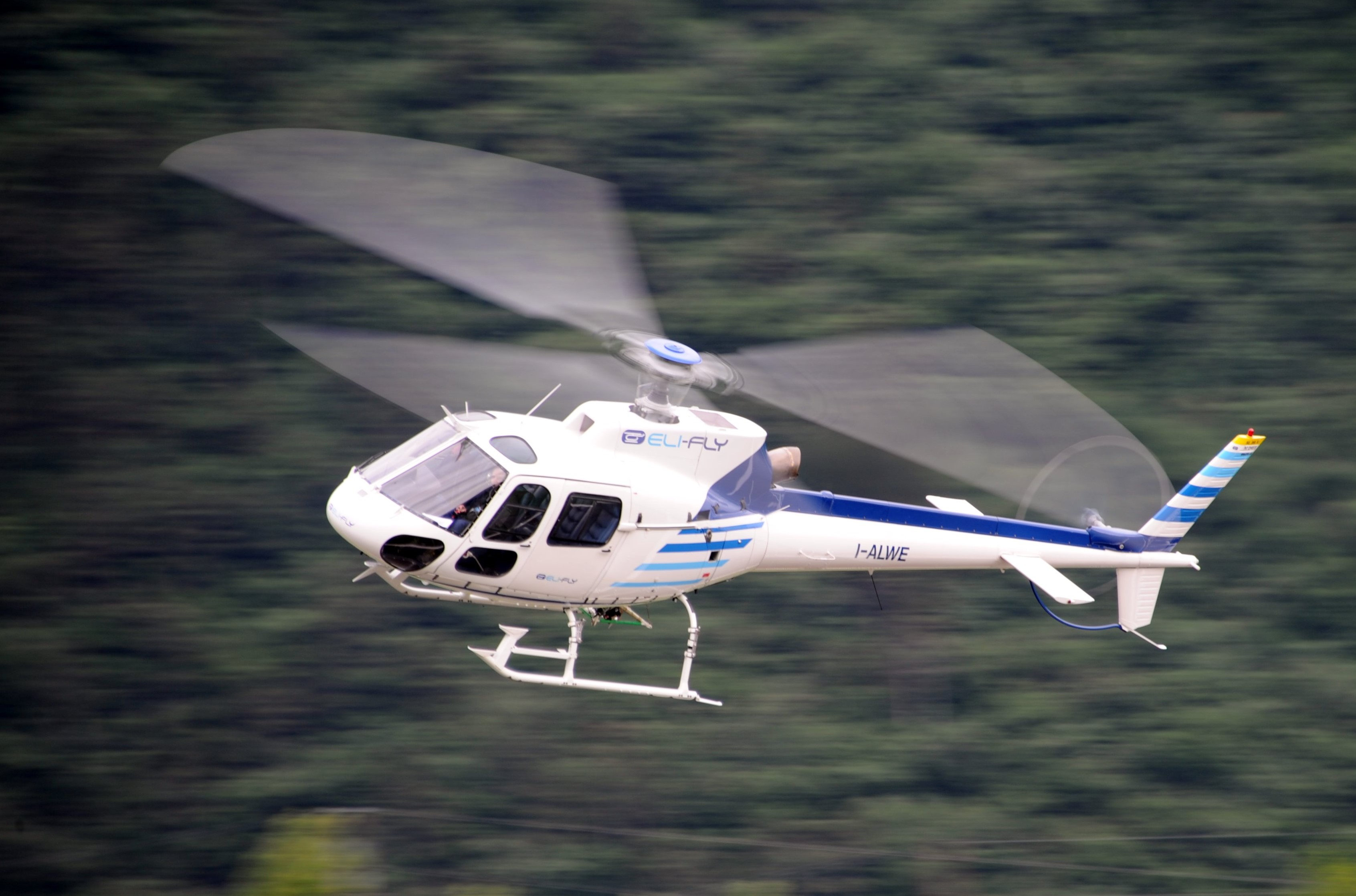 Flying AS350 of ELIFLY operator in Italy